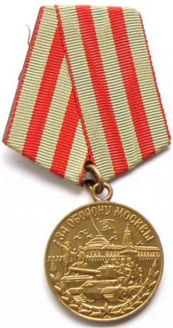 USSR Medal "Defense of Moscow" Crop of the commons pic: Image:Medal Moskva USSR.jpg